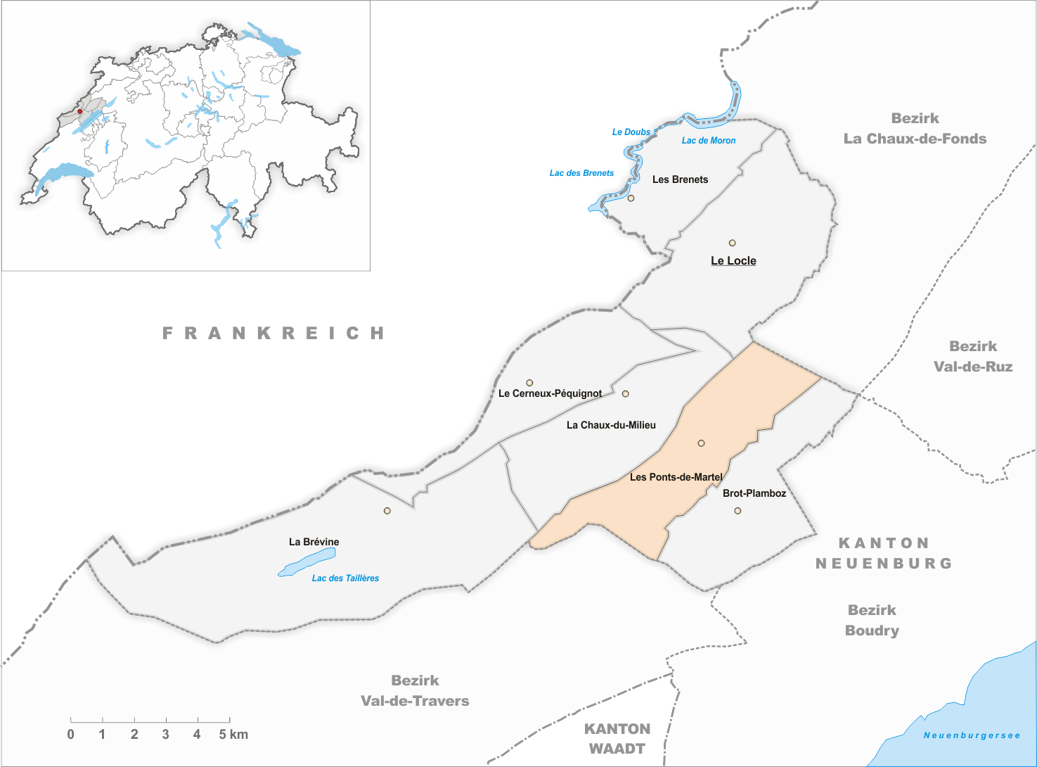 Municipality Les Ponts-de-Martel